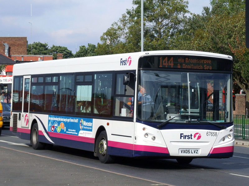 First Midland Red 67658 (VX05 LVZ), a TransBus Enviro300 on route 144. The bus was new in 2005.